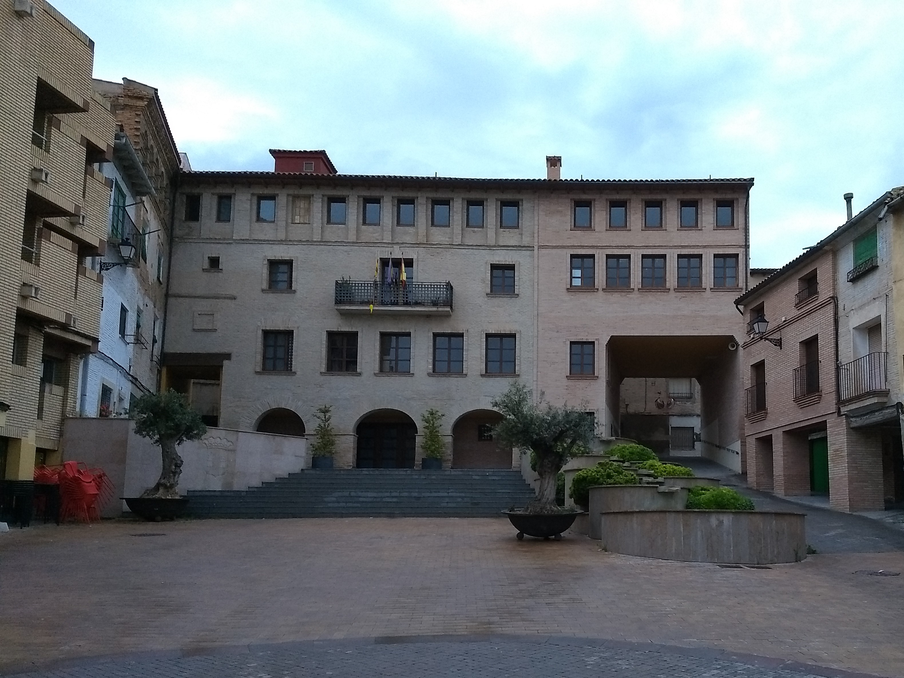 Current town hall in Magallon (Aragon)